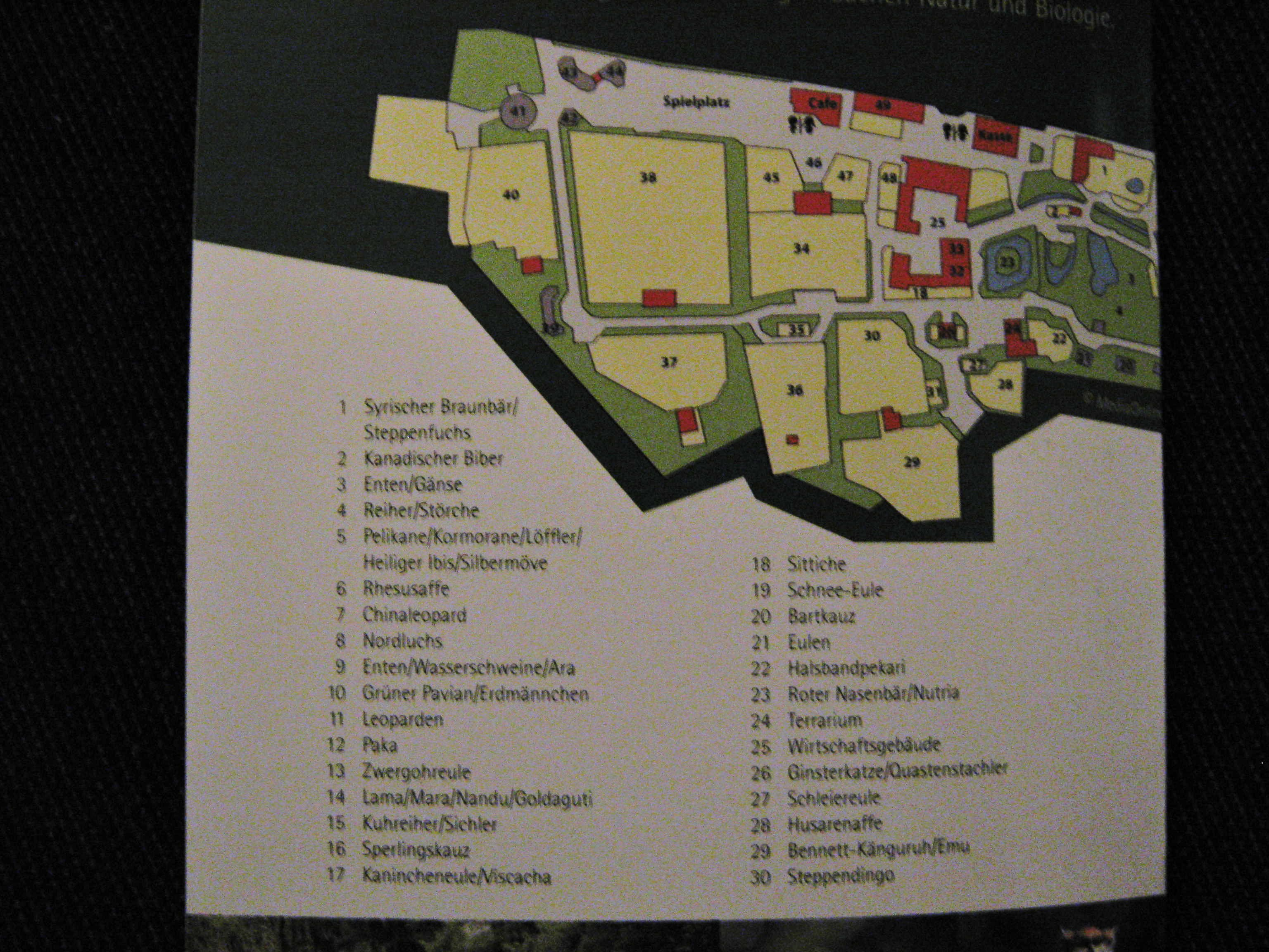 Plan of the zoo in Gotha